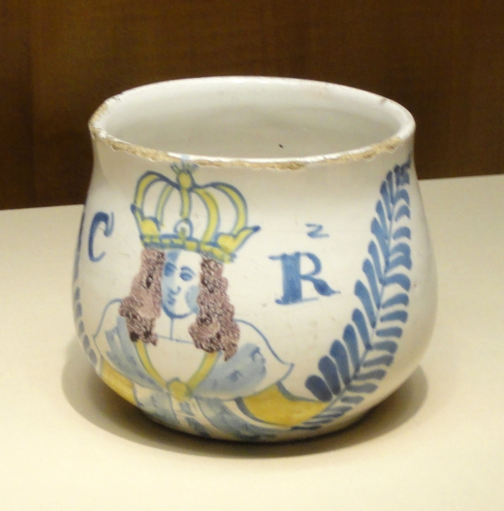 Exhibit in the Nelson-Atkins Museum of Art, Kansas City, Missouri, USA. ; I took this photograph and release it into the public domain.